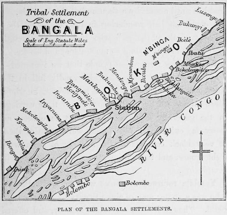 Pictures excerpted from HM Stanley's book "The Congo and the founding of its free state; a story of work and exploration (1885)"